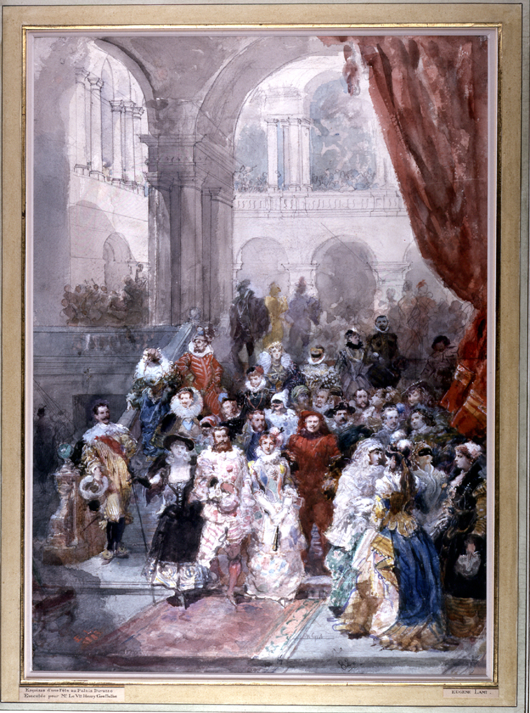 This watercolor is a study for a painting entitled "Fête chez la princess de Sagan," (1883, private collection) that was produced to commemorate a ball held in 1883 at the Sagan mansion near Les Invalides in Paris (now the Polish embassy). Therefore, the inscription on the back of the watercolor-"Study for a party at the Durazzo Palace, executed for Monsieur the Viscomte Henri Greffuhle"-is partially incorrect. Although this work was indeed in Greffuhle's collection, the nature of this image as a preparatory study causes us to question the viscount's role in its commission. It is more likely that he simply purchased the watercolor from the artist as a memento of the occasion for his wife, the Comtesse Greffuhle (Lemoisne, Paris, 1914: 416). Moreover, the statement that the ball took place at the Durazzo Palace is misleading as the party occurred at the princess's Parisian home. The confusion, however, is easily explained by the fact that for the ball the princess had the entryway and grand staircase of the Durazzo Palace in Genoa reconstructed in her own house. The level of detail and the positioning of the figures so that they directly face the viewer in "Study for a Costume Ball..." indicate the commemorative nature of the painting for which it was prepared. Lami shows the guests spilling forth from the background, down the grand staircase, and through a large arch into the immediate foreground of the image. As they proceed toward us, the revelers move out of an area of relative darkness into the brightly lit frontal plane. The lighting combined with the placement of the guests facing the viewer compels us to admire the elaborate beauty of their 16th-century costumes. Moreover, it would have allowed the original owners-the countess and the viscount-to recall the evening vividly, as the highly detailed faces of the guests transform the work into what is essentially a group portrait.